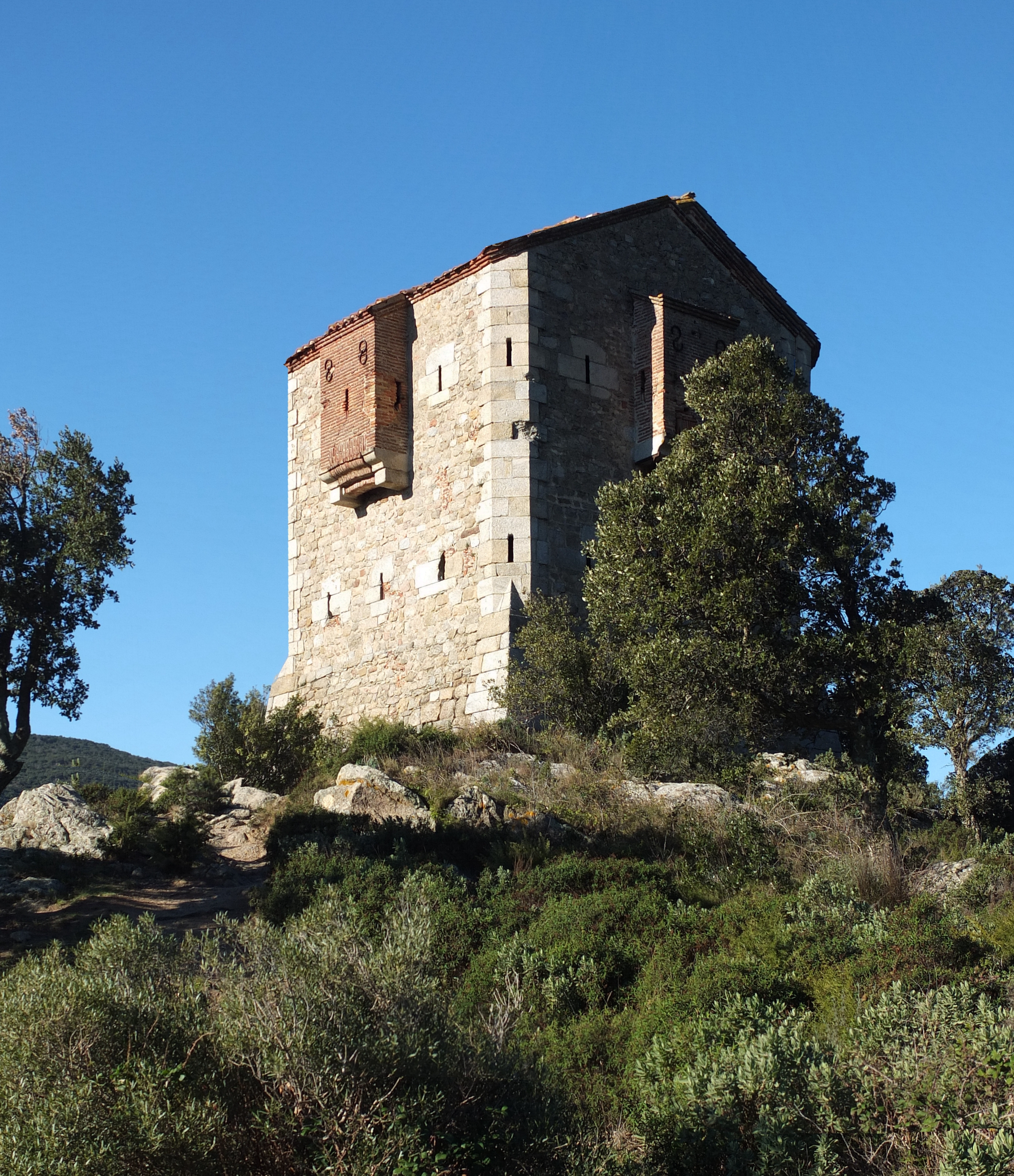 "Redoute de Panissars", belonging to Fort de Bellegarde, located on the Col de Panissars near Le Perthus, France (view E).